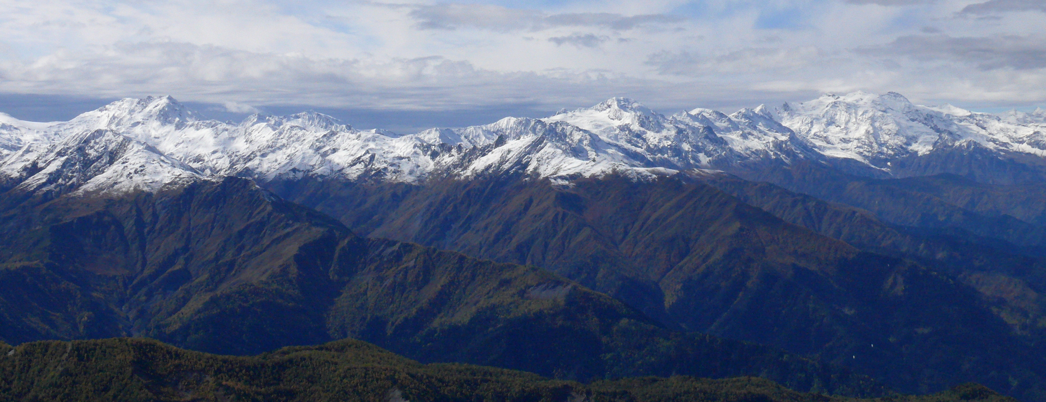 Svaneti Range viewed from Tetnuldi. Mountains Meklish and Lasili (left), Gvadarashi (centre), Lahili (right).